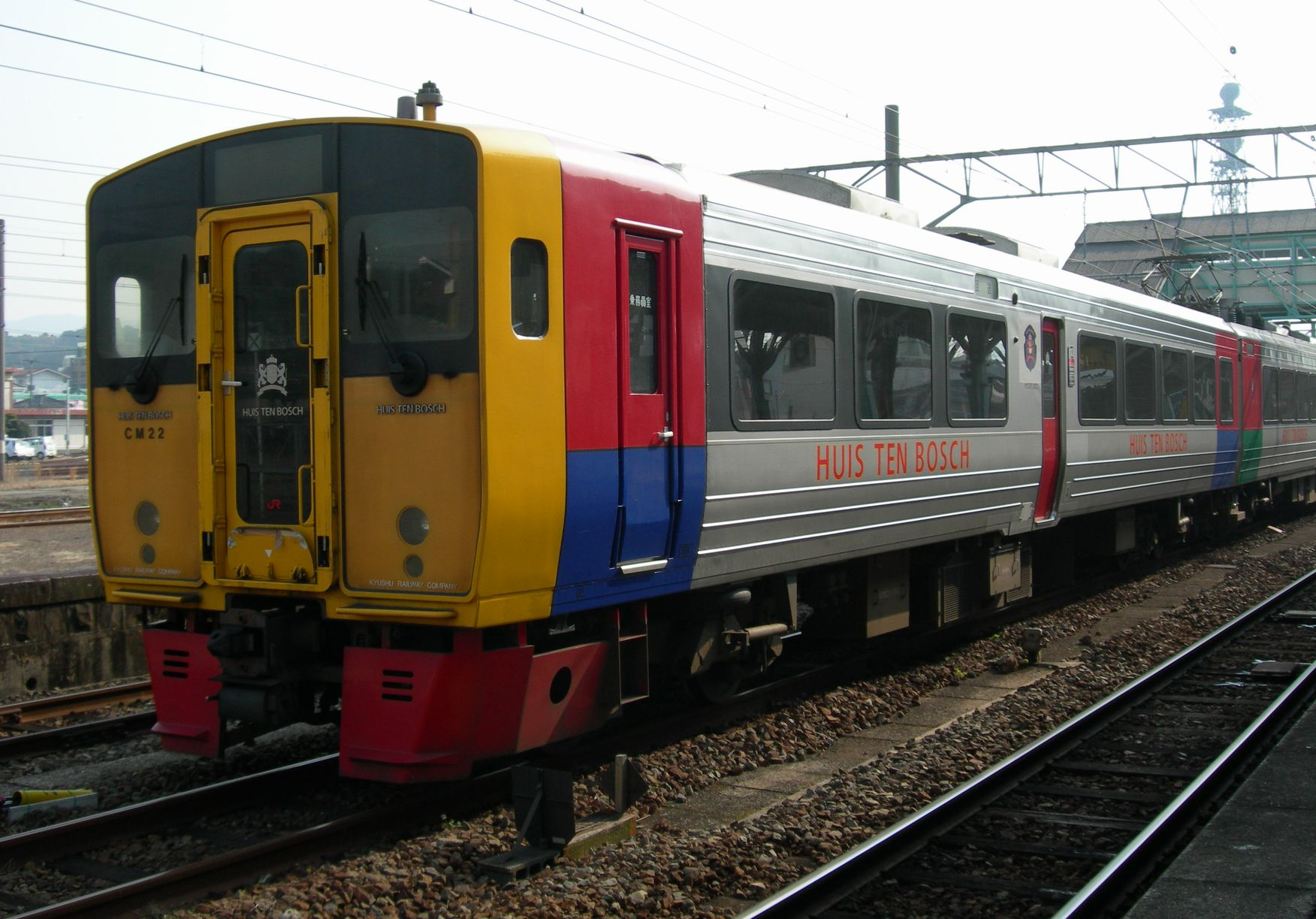 JR Kyushu 783 series EMU on a Huis Ten Bosch service at Haiki Station with KuHa 783-100 car leading